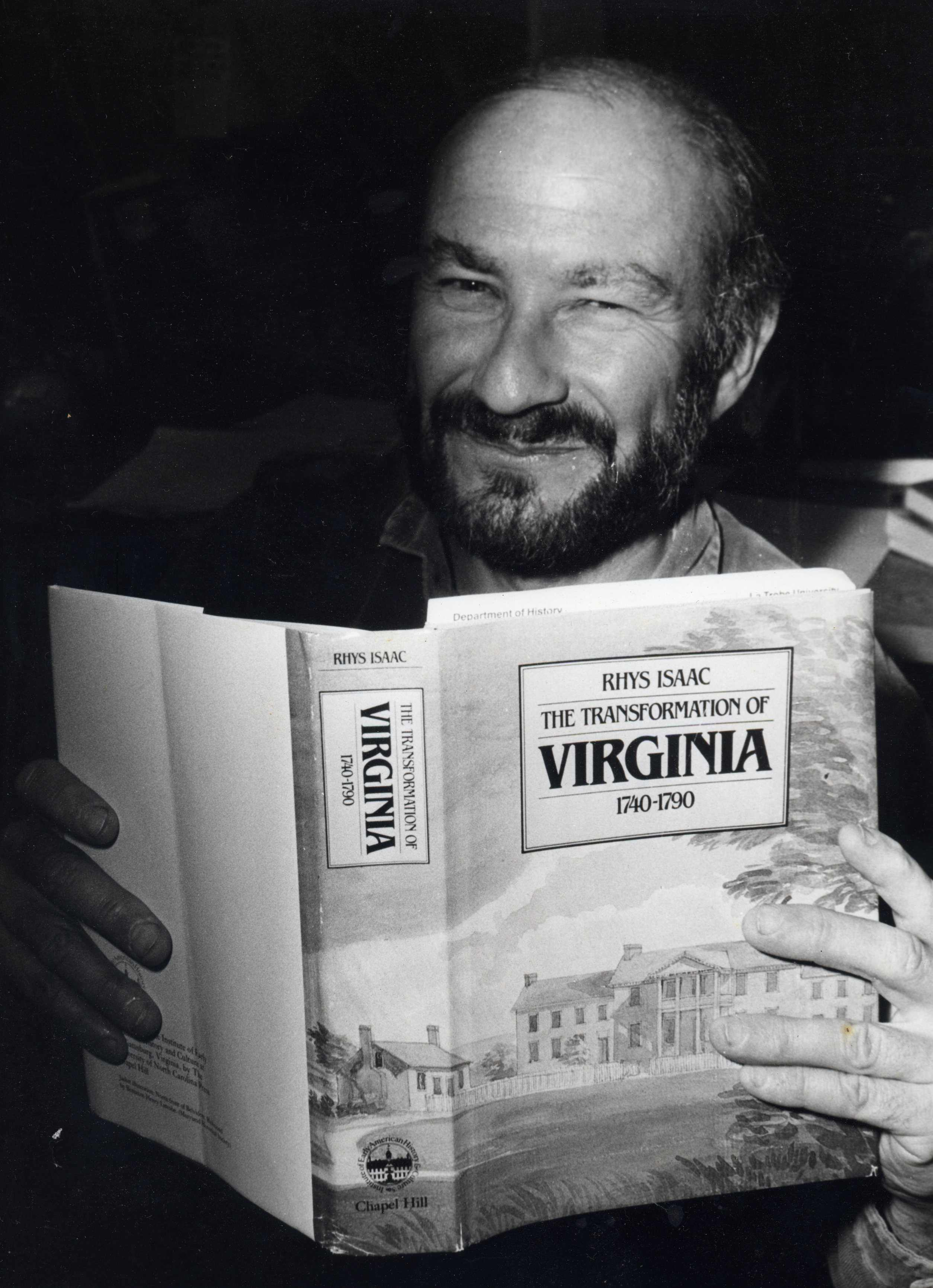 Rhys L. Isaac, author of Pullitzer winning book 'Transformations of Virginia'